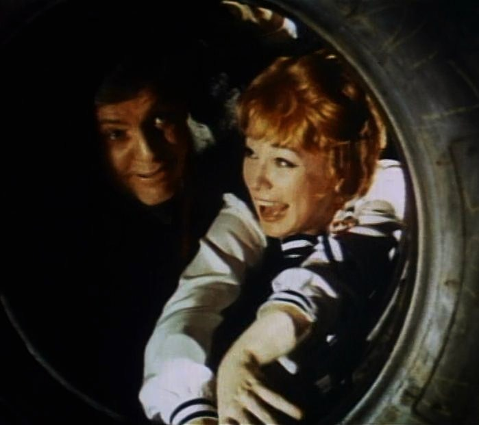 John McMartin and Shirley MacLaine in Sweet Charity (1969) - trailer (cropped screenshot)